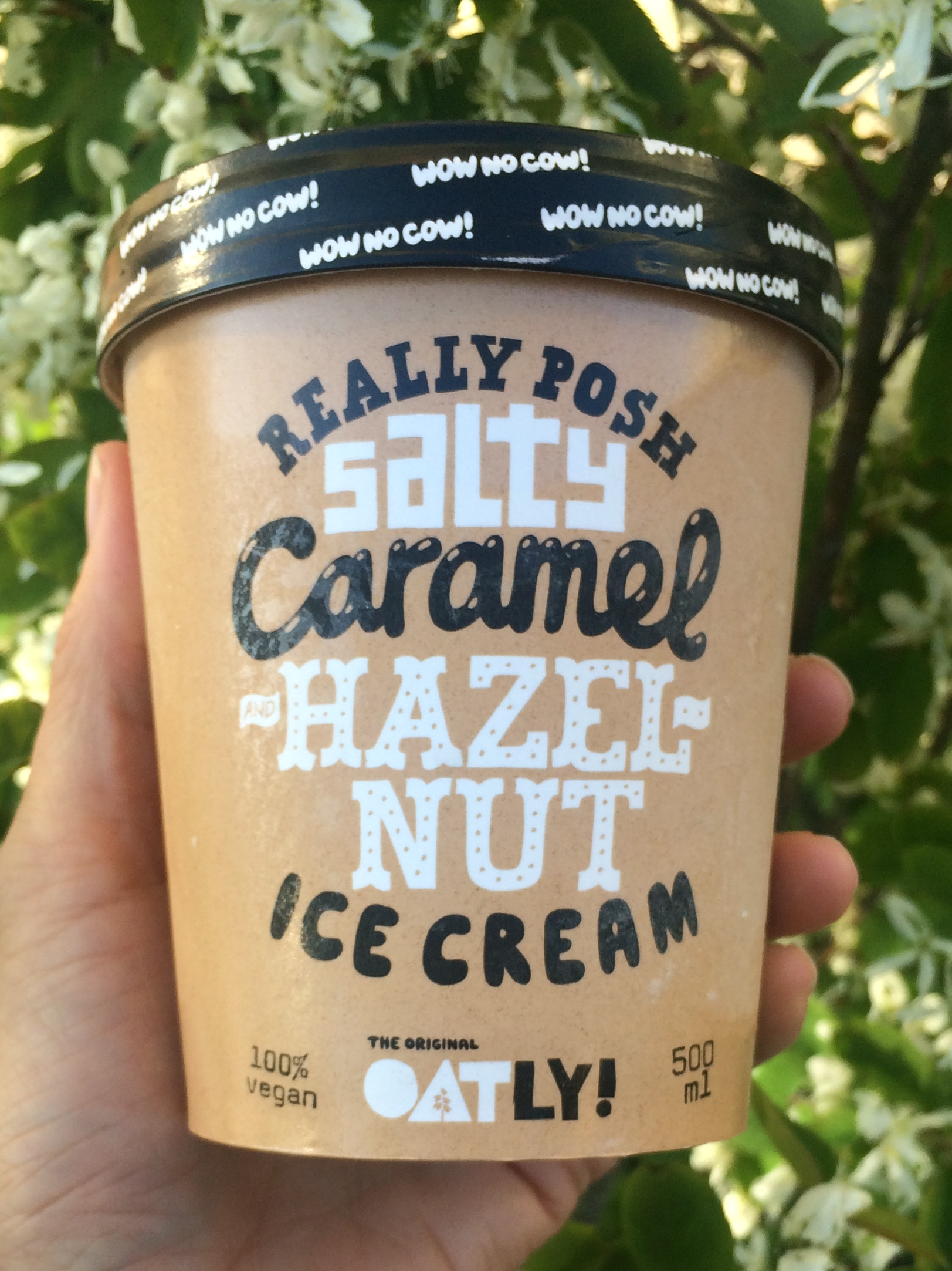 Oatly Salty Caramel Hazelnut, a vegan ice cream produced from oat milk